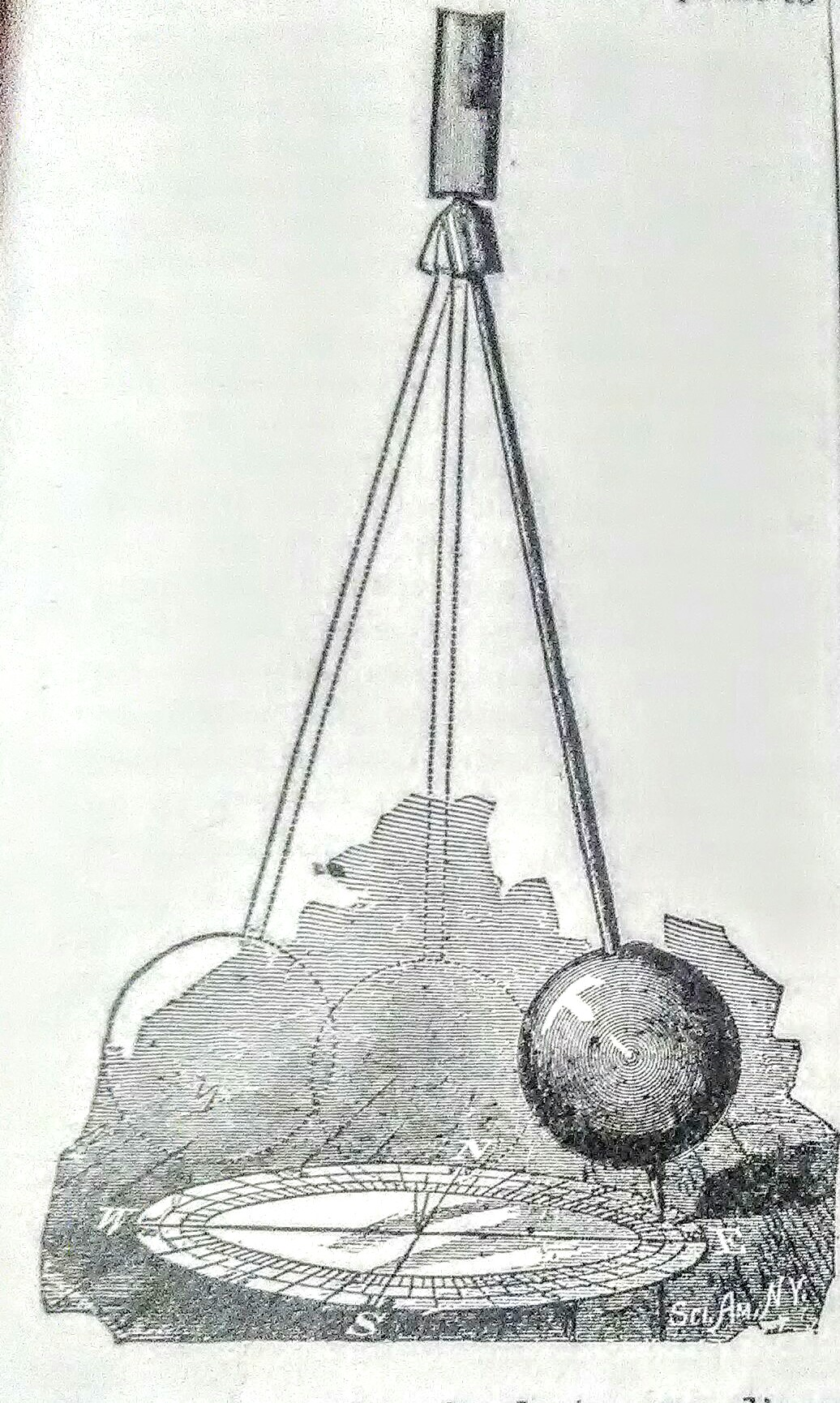 Foucault Pendulum. Pendulum for Showing the Rotation of the Earth.